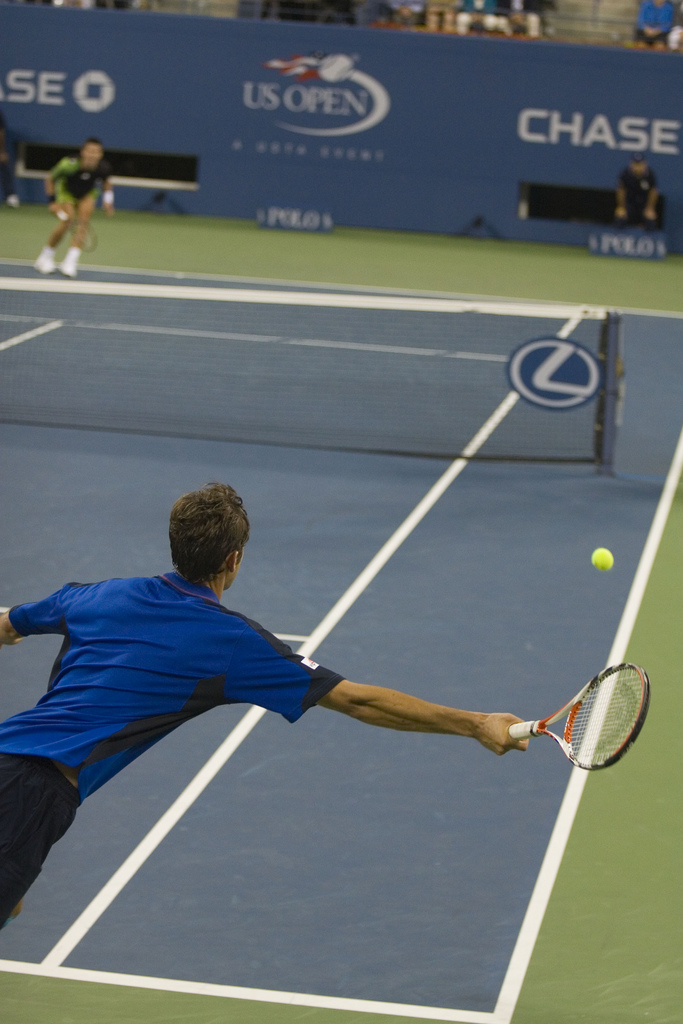 Cilic stretches out to return a serve from Novak Djokovic during the 2008 US Open in New York. This photo looks better in the larger sizes.